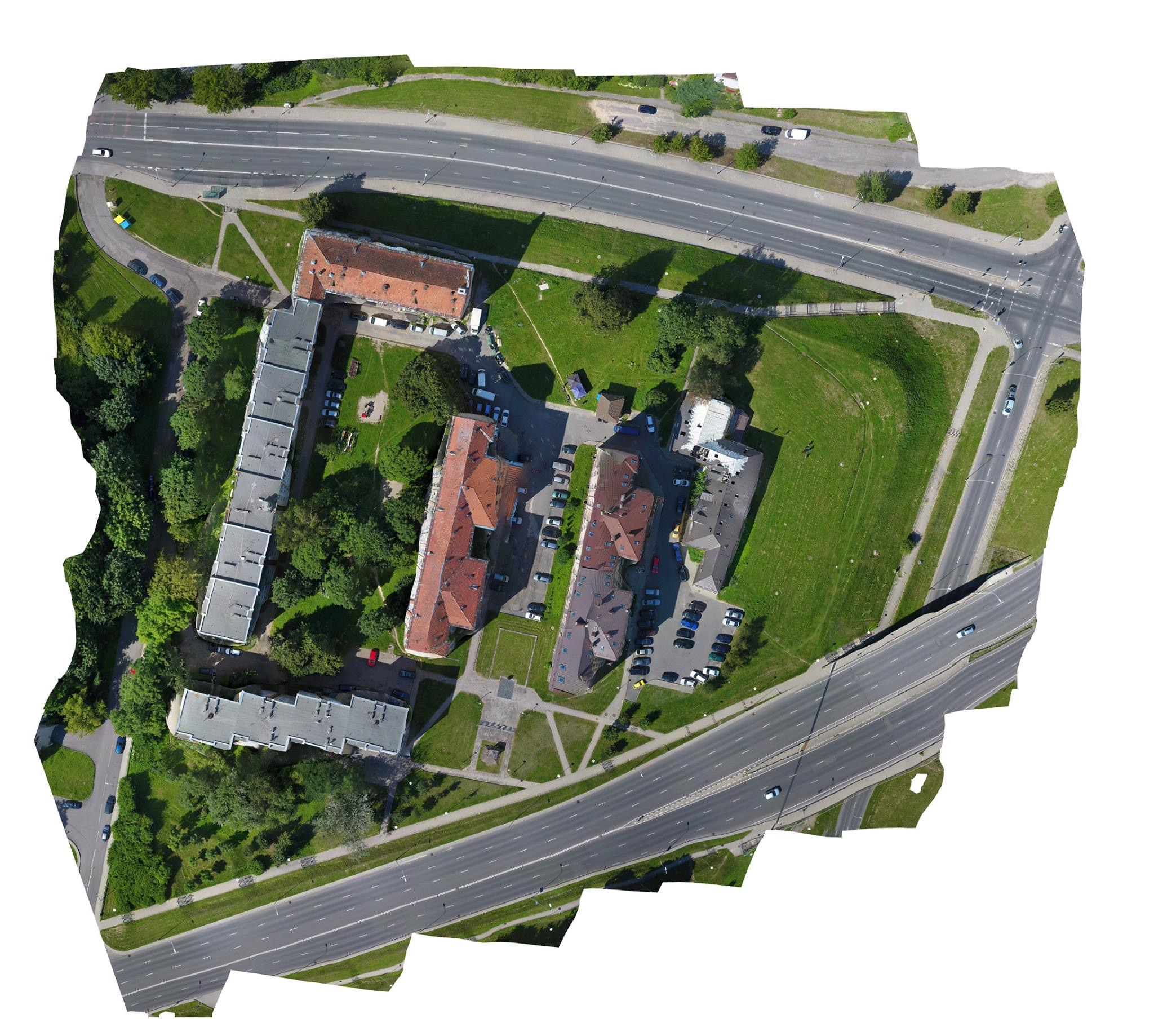 Drone captured image above the former HKP camp in Vilnius at 47-49 Subaciaus street